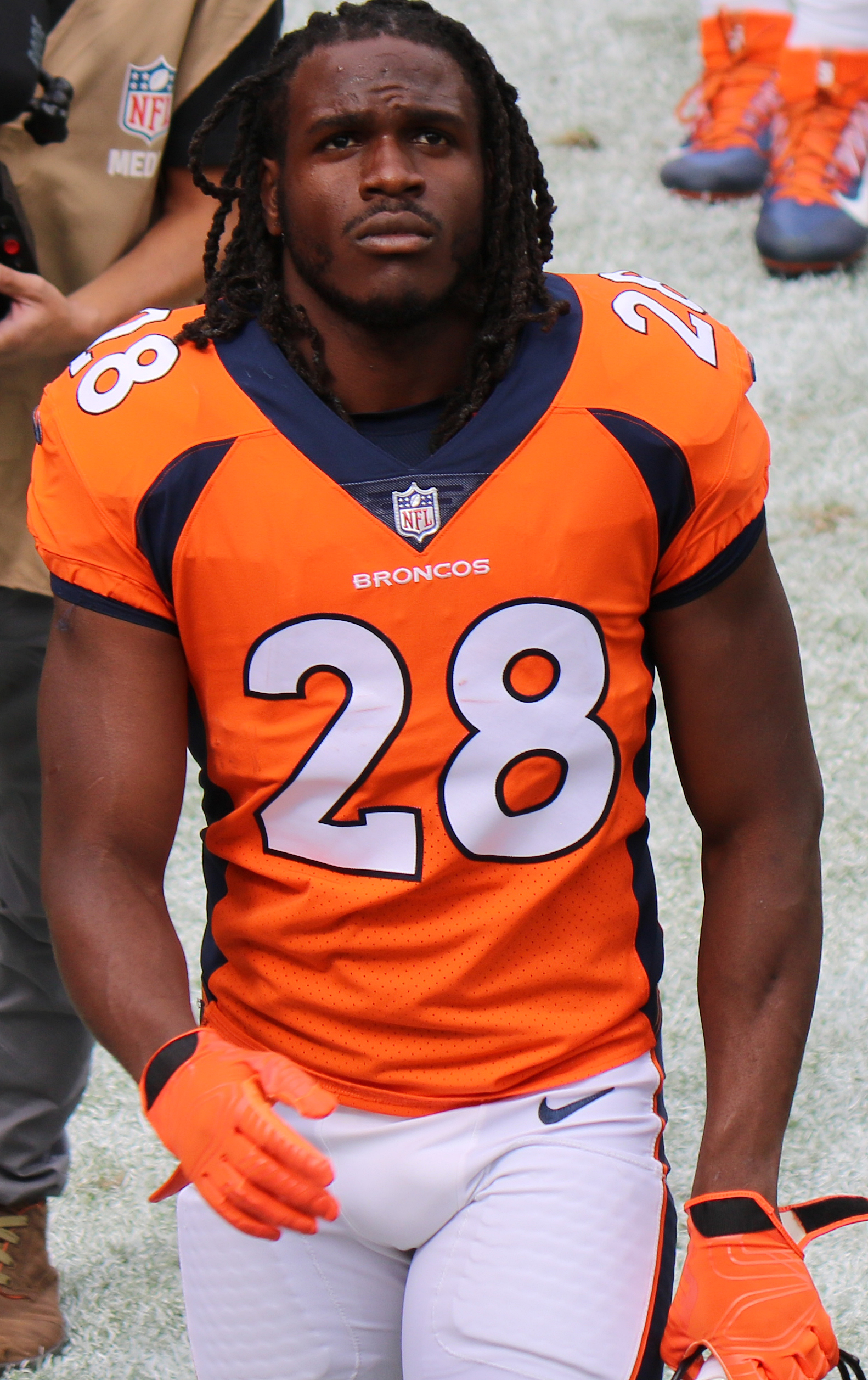 Jamaal Charles, a player on the National Football League.